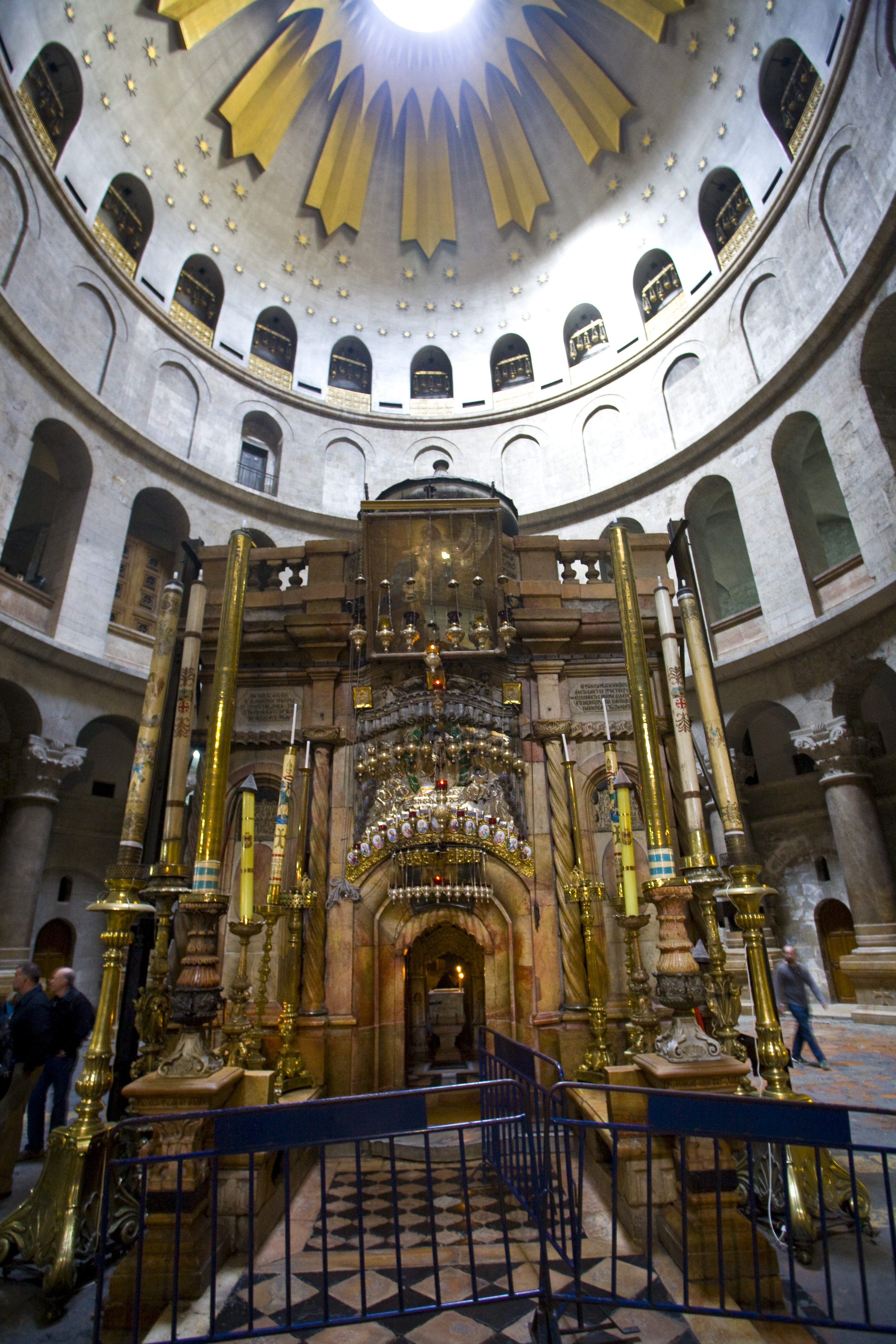 Holy Sepulchre Tomb Jerusalem